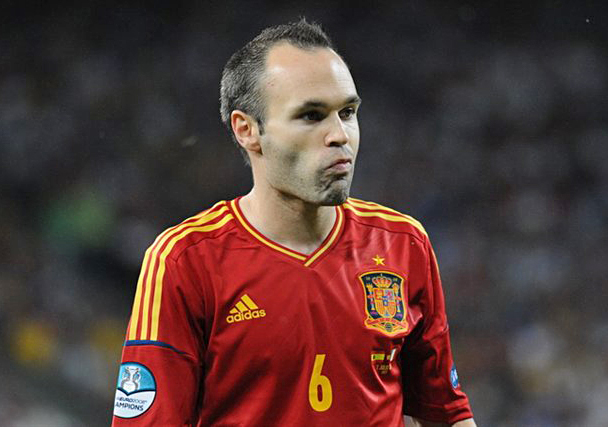 Andrés Iniesta at Euro 2012 final Spain-Italy